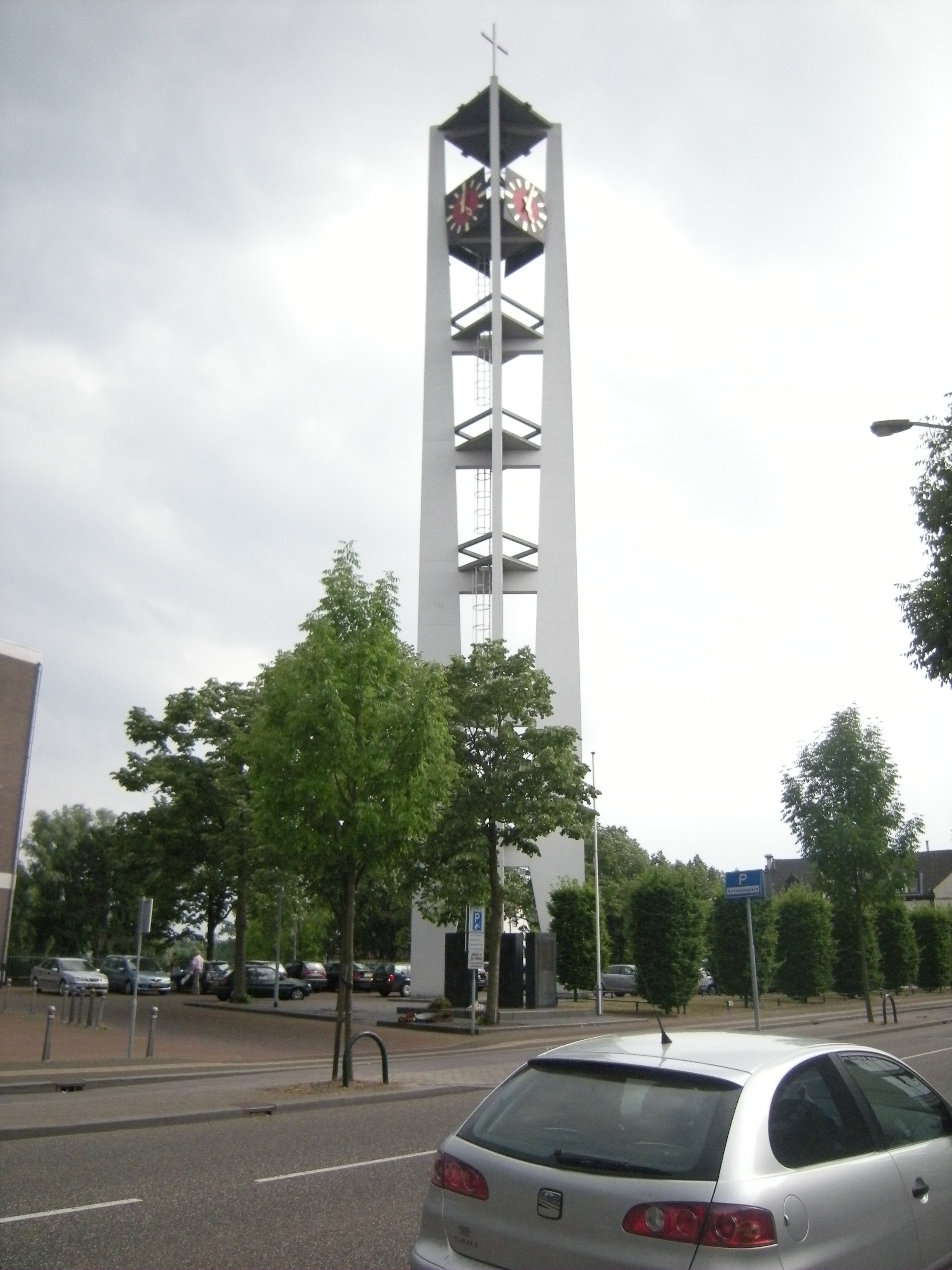 Belltower Church of St. Anthony of Padua, Blerick